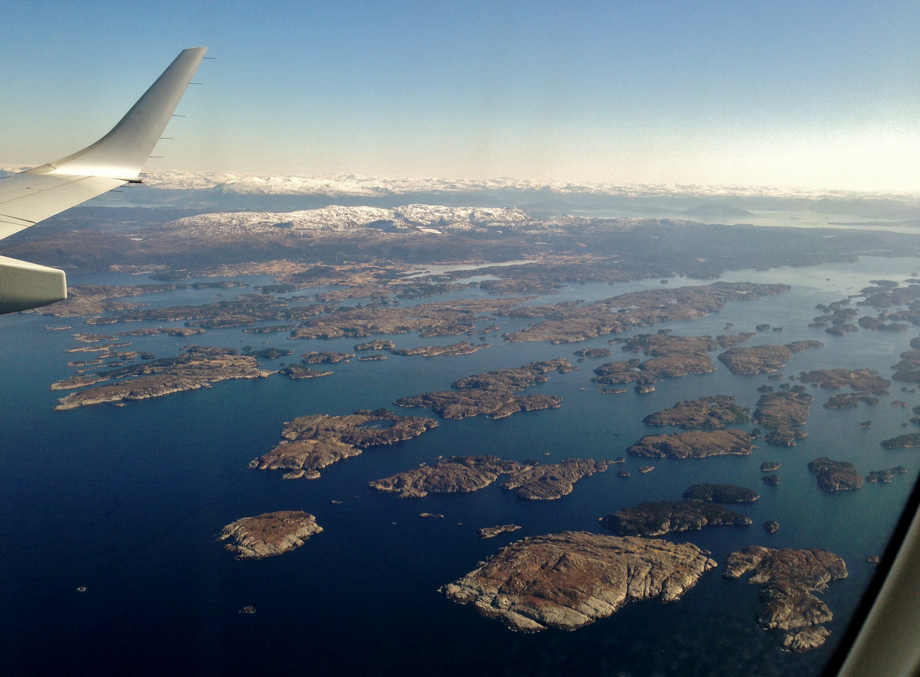 Islands of Fitjar with Stord in the background. Fitjar seen left of the centre.